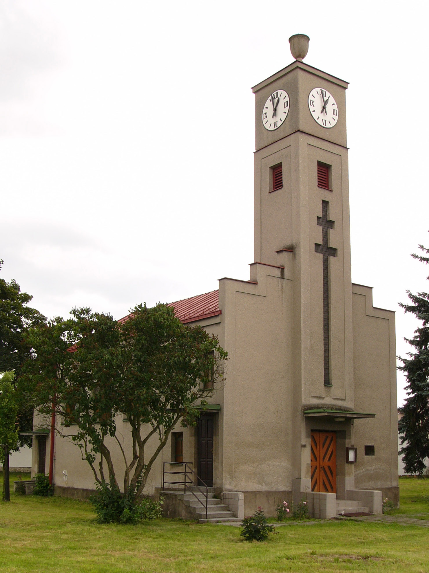 sbor Prokopa Holého church in Olomouc (Czech Republic).